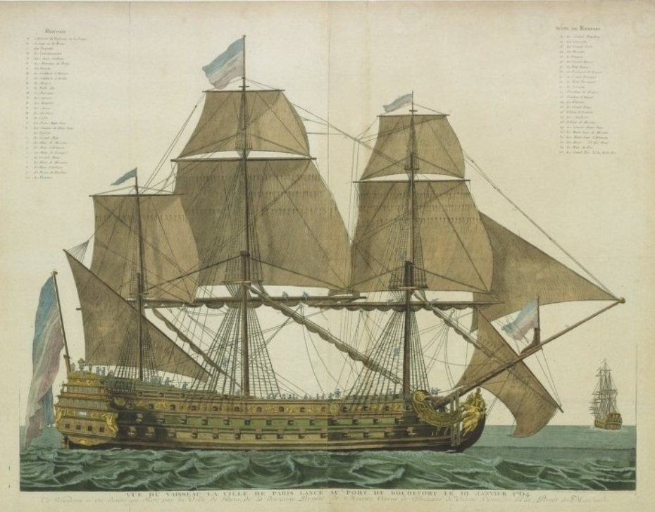 French warship Ville de Paris in 1764.